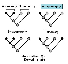 Adapted from Page, Roderic D.M. and Holmes, Edward C. Molecular evolution: a phylogenetic approach. Wiley-Blackwell, 1st edition, 1998.